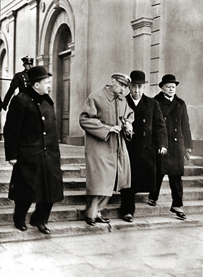 Józef Piłsudski and Michał Butkiewicz (first to the right) Warsaw, 21.03.1935. The last known photo of Józef Piłsudski